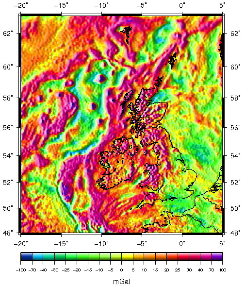 Free-air gravity anomaly map around Britain and Ireland, from using EGM2008 data publicly released by the National Geospatial Intelligence Agency (NGA)